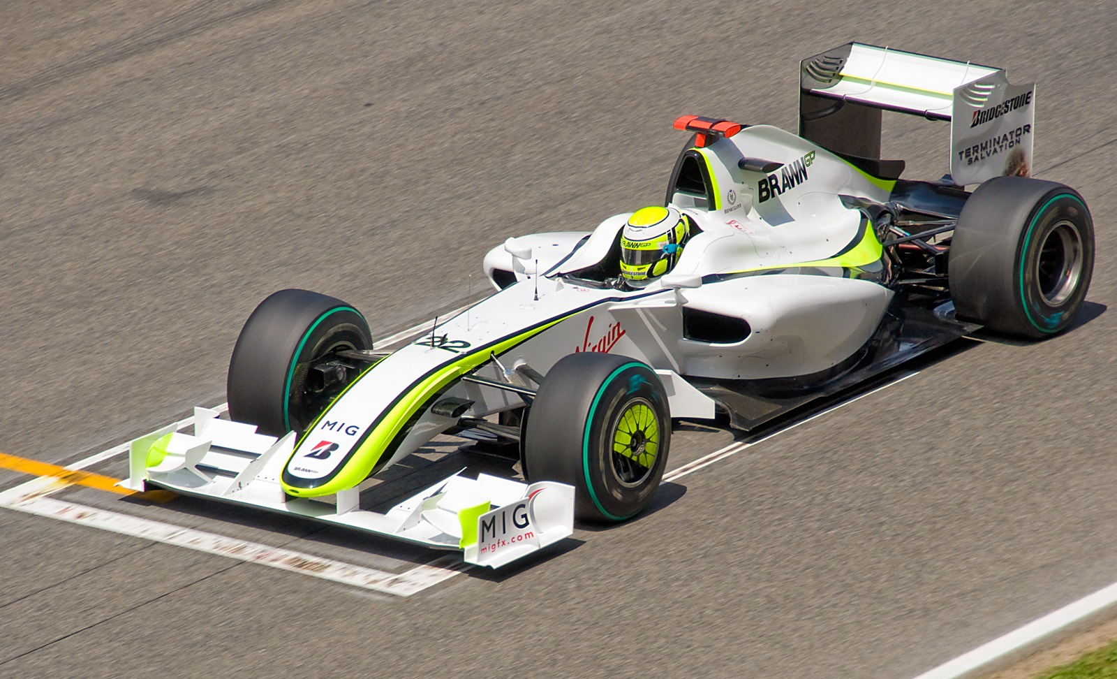 Button at the spanish GP Nikon D90 + Sigma 18-200 DC OS HSM 1/1600s - F/10 - 200mm - ISO640